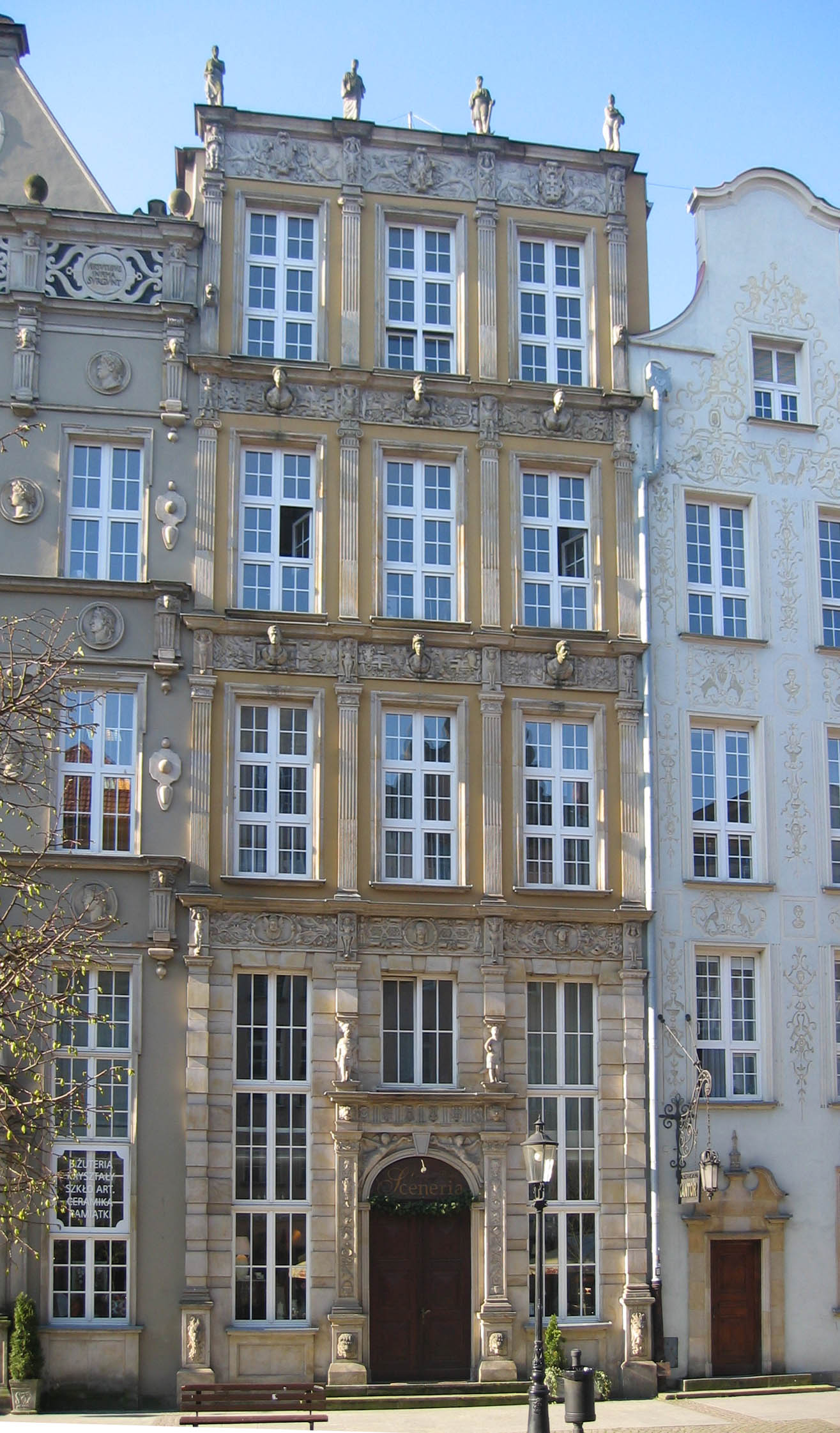 Ferber House (ul. Dluga 28) in Gdansk, Poland.